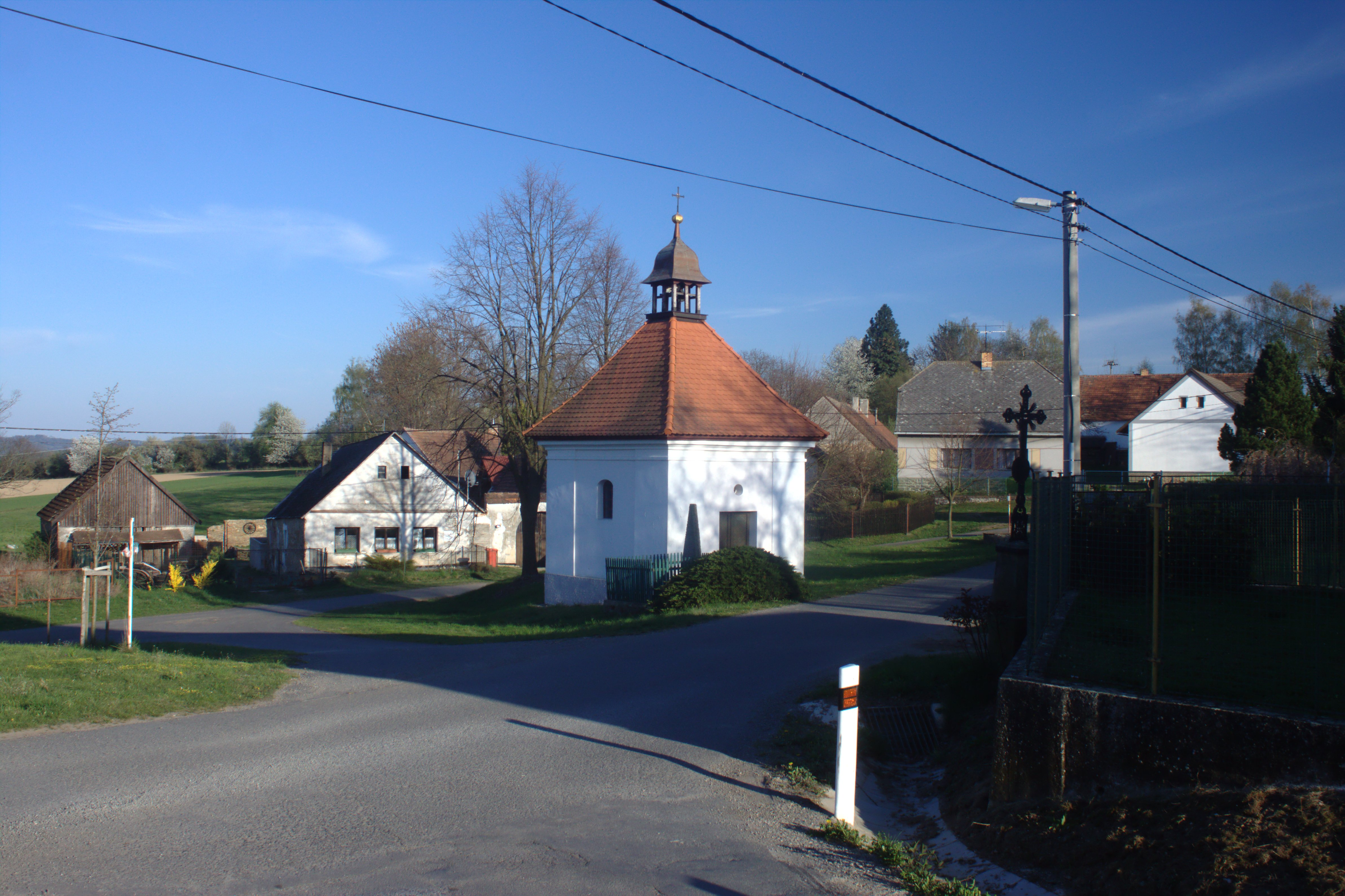 This photograph was created as a part of Wikiexpedition Mladá Vožice, a project supported by Wikimedia Foundation grant.